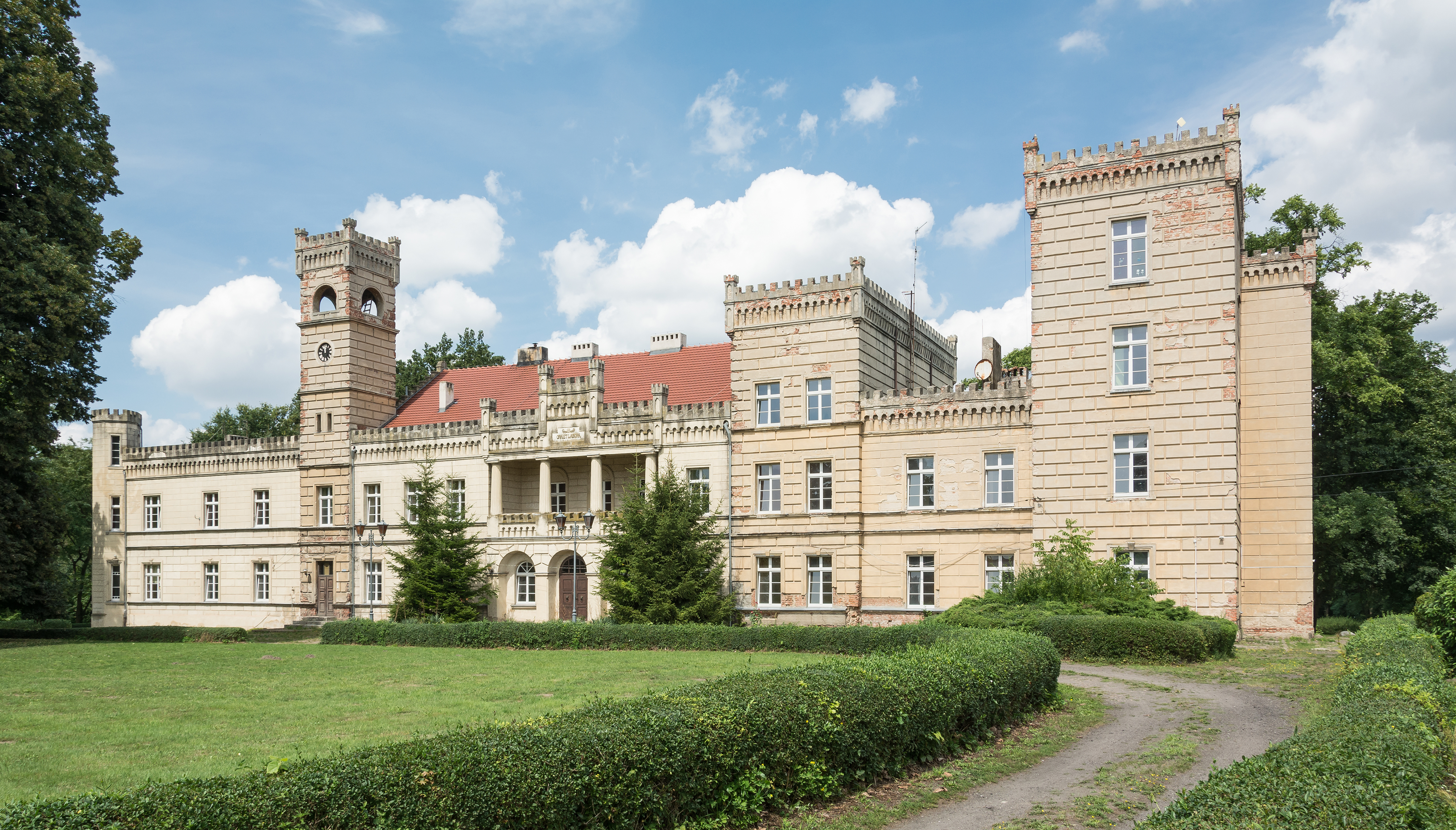 Palace in Gościeszyn Wikidata has entry Q33139907 with data related to this item.